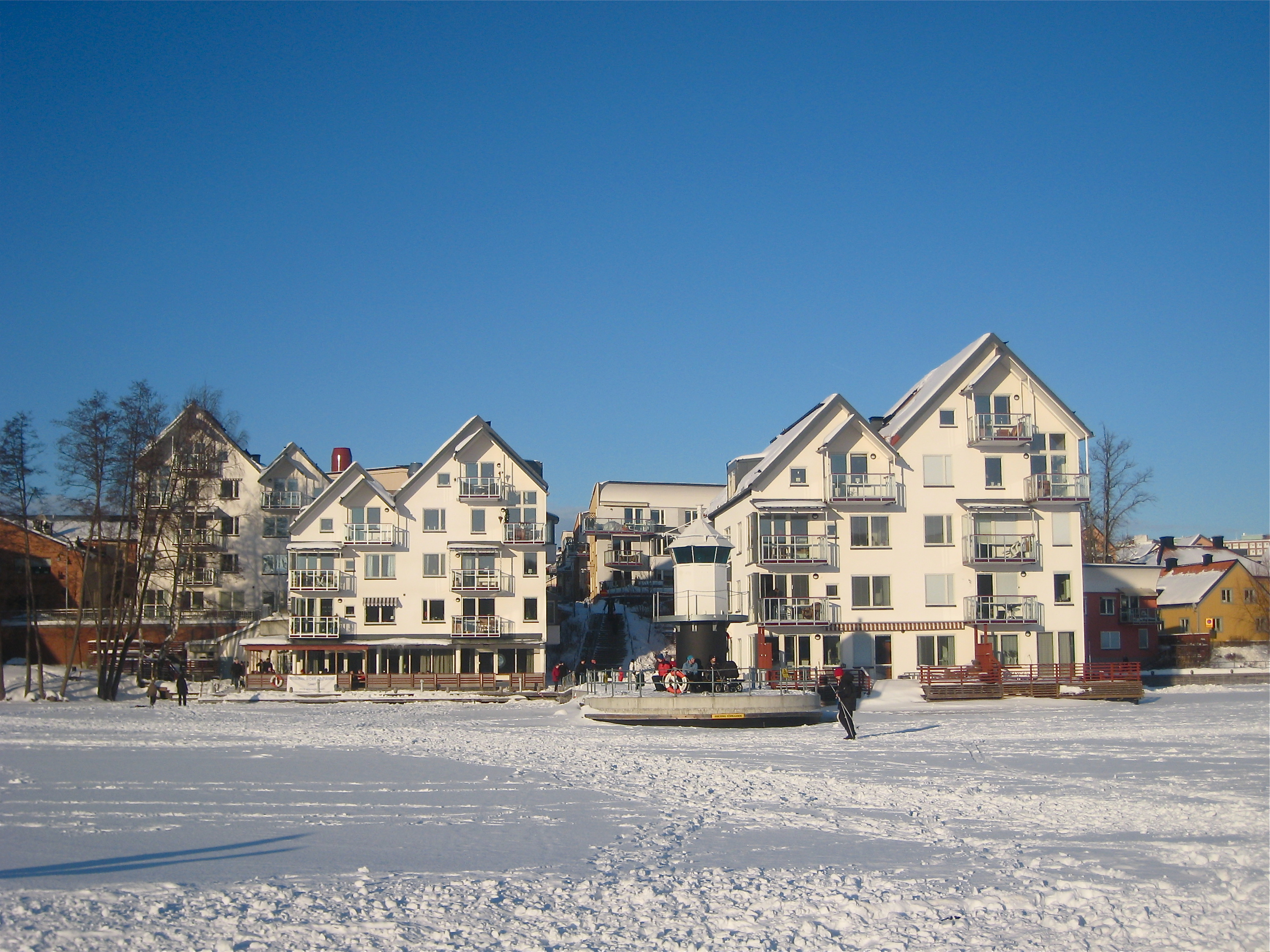 Järna sjö, february 2010.